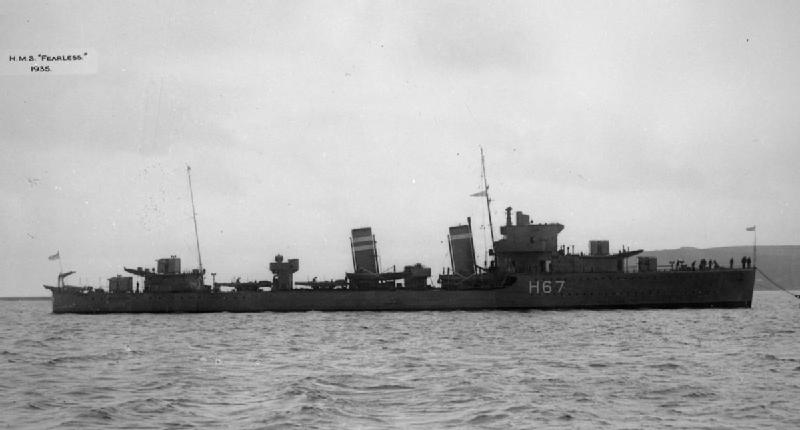 Photograph of British destroyer HMS Fearless.